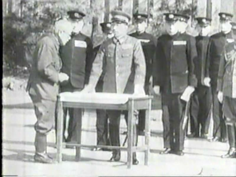 Emperor Hirohito to patrol the affected areas of the Bombing of Tokyo (9-10 March 1945) in Tomioka Hachiman Shrine, 18 march, 1945.